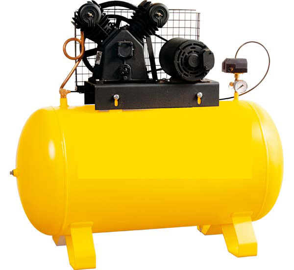 Air compressor